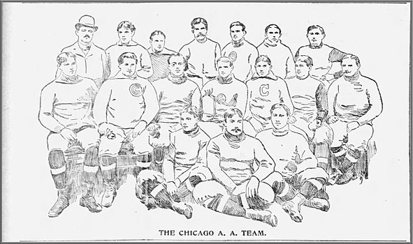 This is the CAA before their Thanksgiving Day contest against the Boston Athletic Association. They would go on to tie 4 to 4 at CAA field in front of 6000 spectators on a wet, snowy November morning.